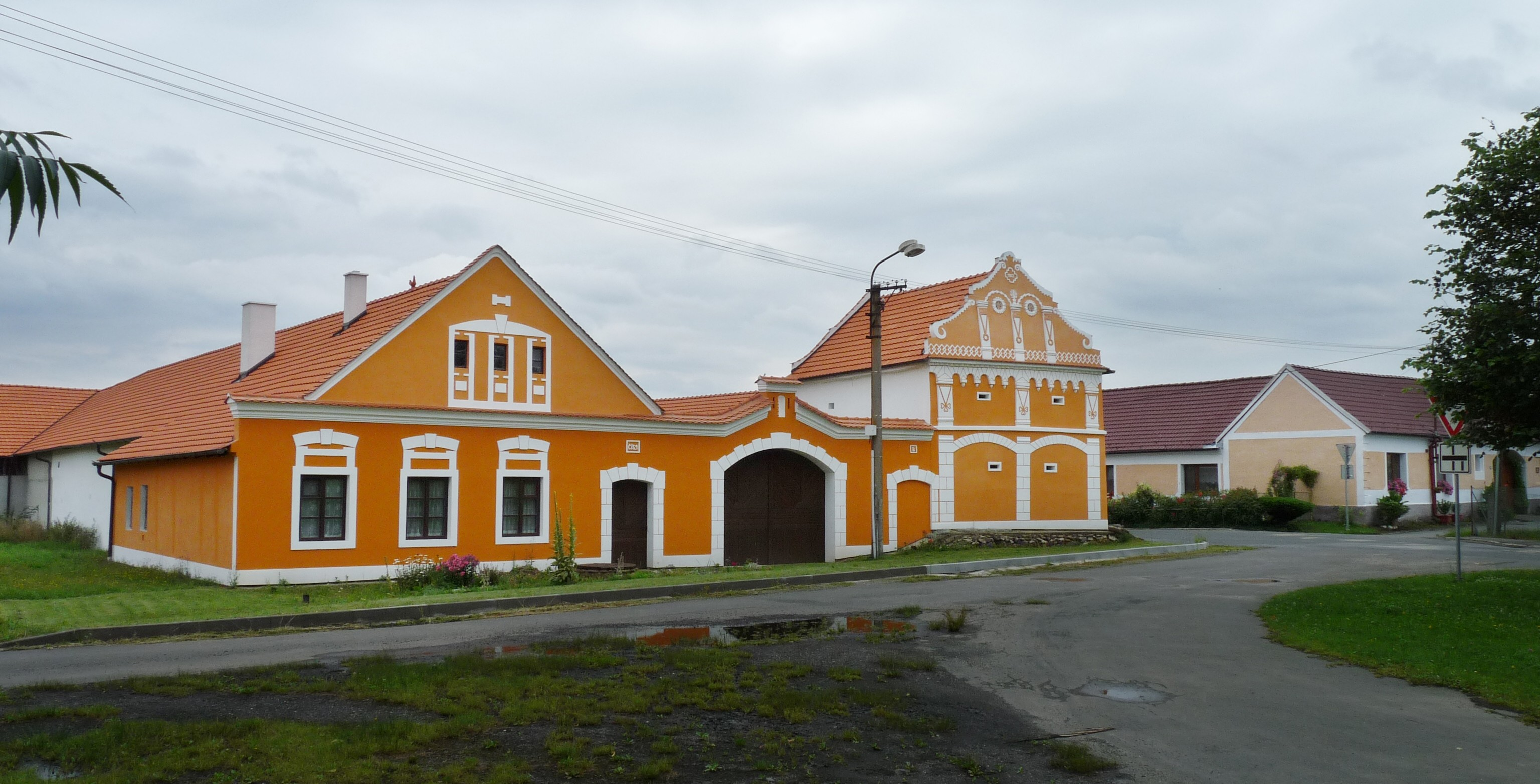 Cottage No 1in Komárov, Tábor district, Czech Republic, dated 1862